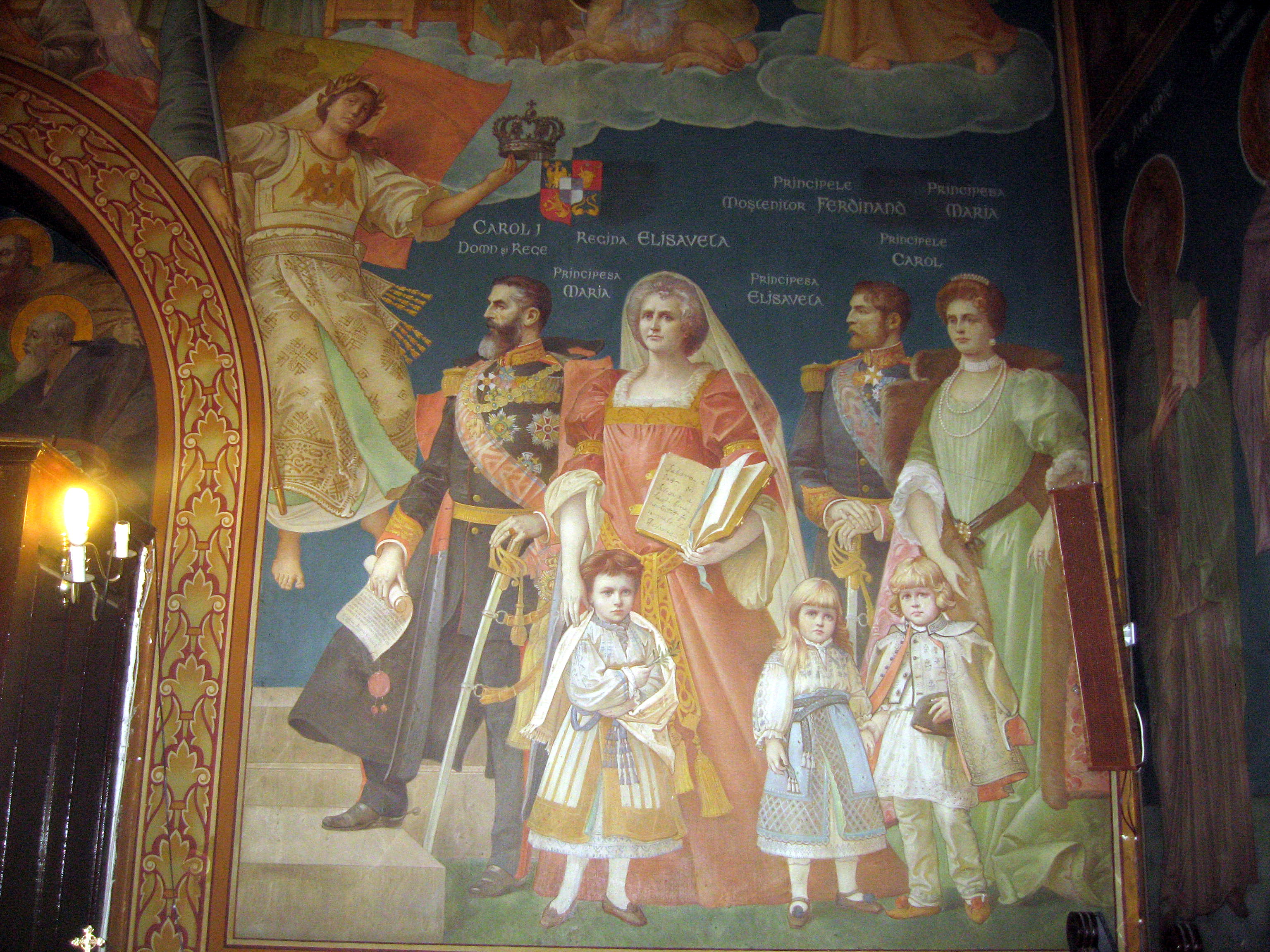 Biserica Sf. Nicolae Domnesc din Iași, România